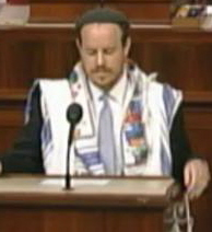 Rabbi Shmuel Herzfeld delivers the opening prayer as guest chaplain at the United States House of Representatives on Friday, May 23, 2014